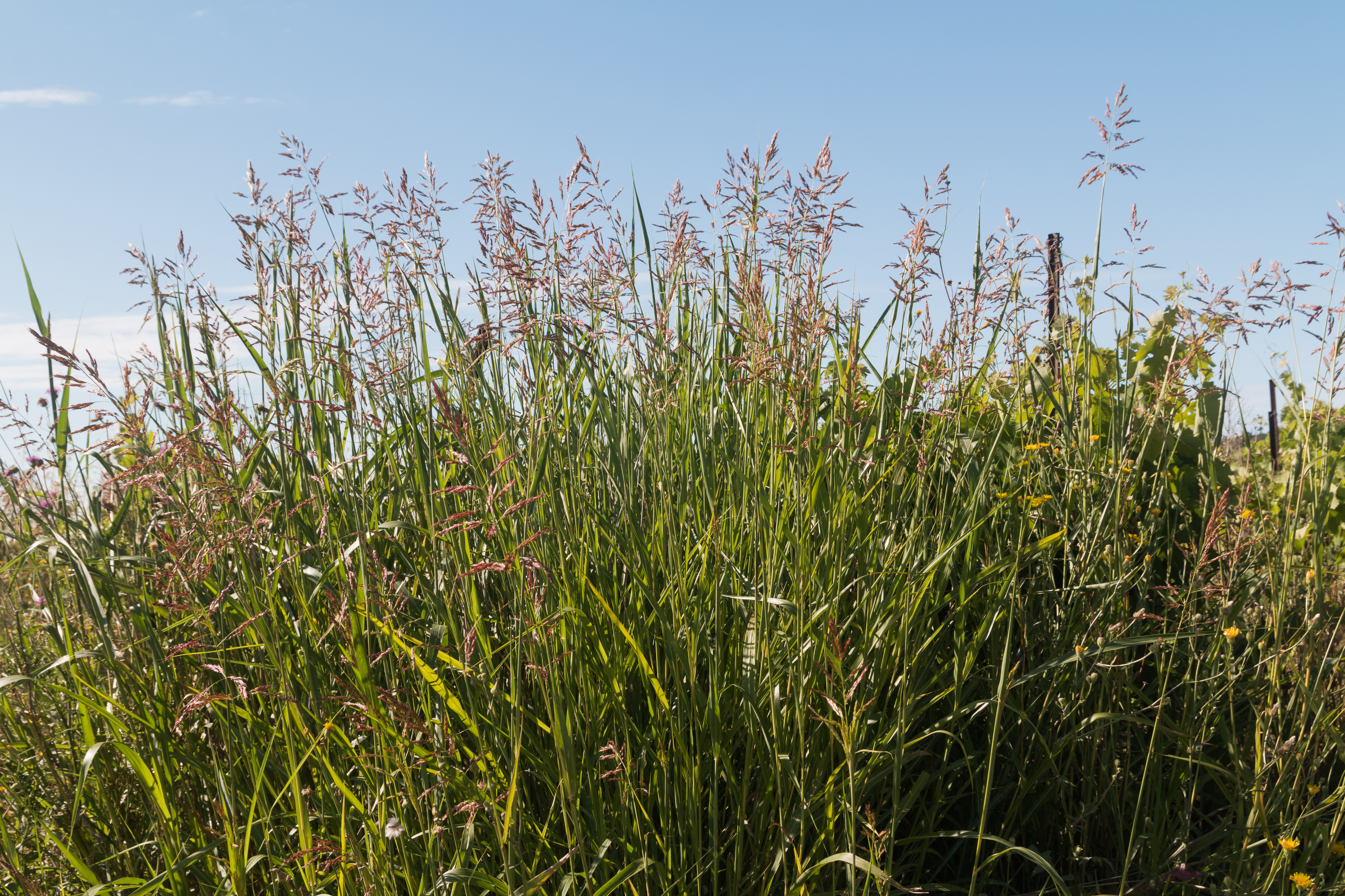 Plant of Johnson grass.